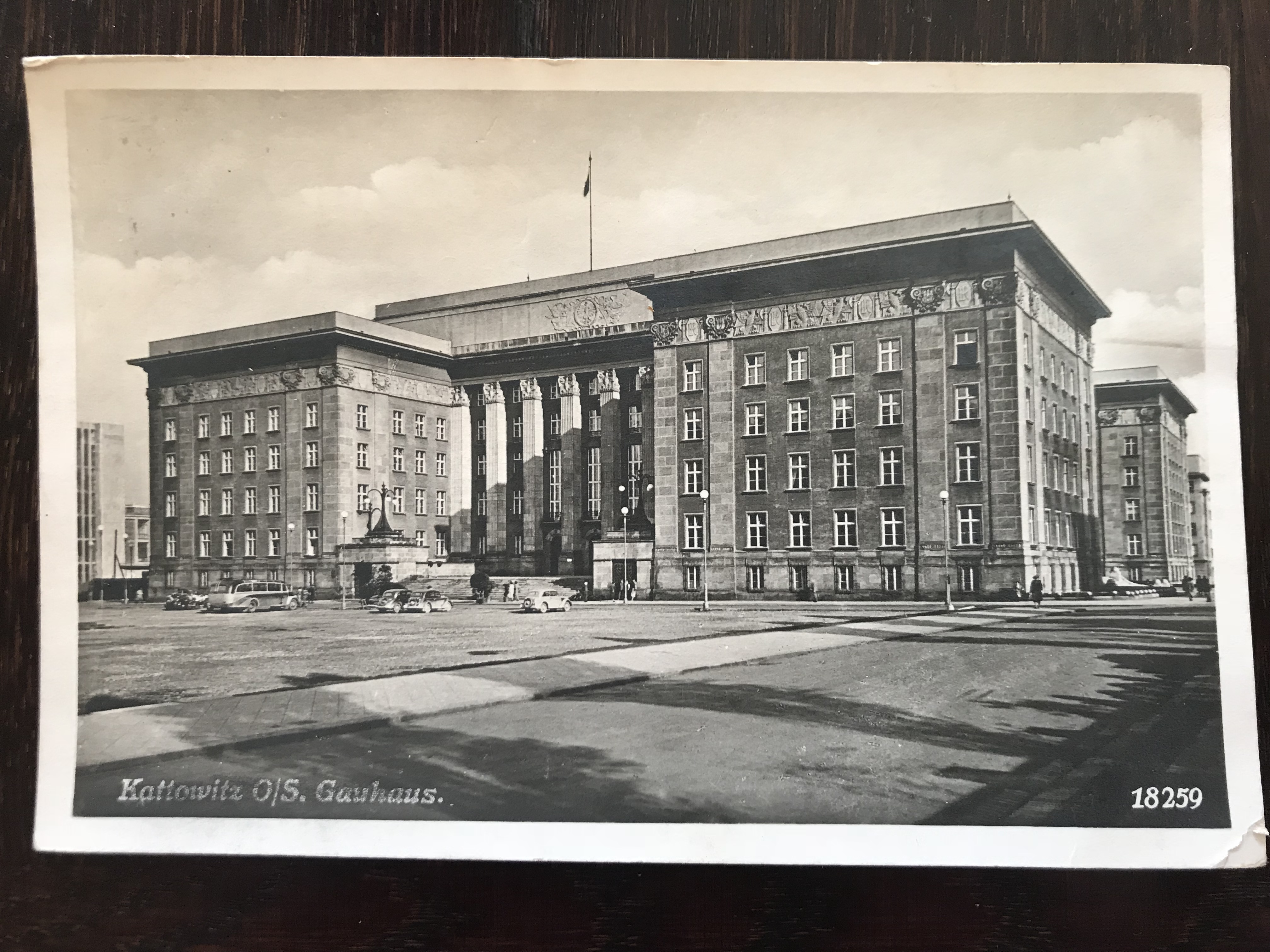 View of Wojewodship Building in Katowice with Silesian Museum in the background before 1945